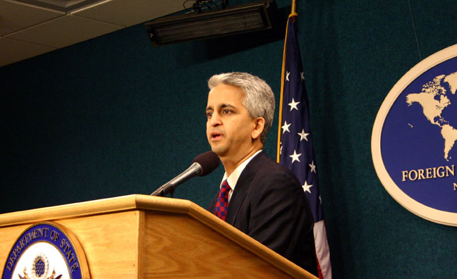 Sunil Gulati, Professor of Economics at Columbia University and president of the United States Soccer Federation, delivering a briefing on "U.S. Soccer on the Eve of the 2006 World Cup" in New York.